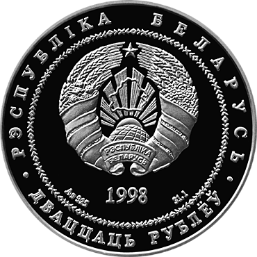 "Mir Castle". Silver commemorative coins, denomination: 20 rubles